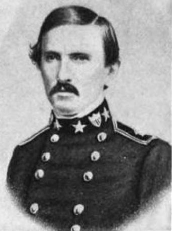 Confederate Major General George Bibb Crittenden